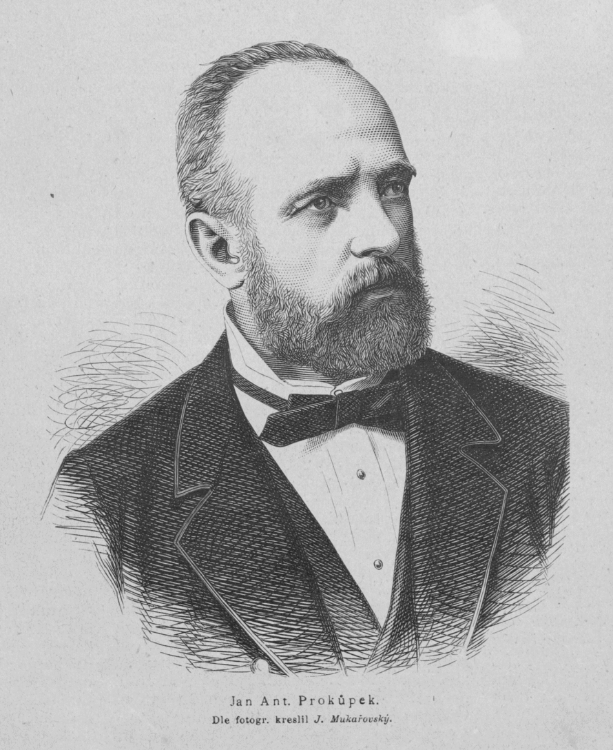 Portrait of Jan Antonín Prokůpek (1832-1915), Czech farmer and politician.